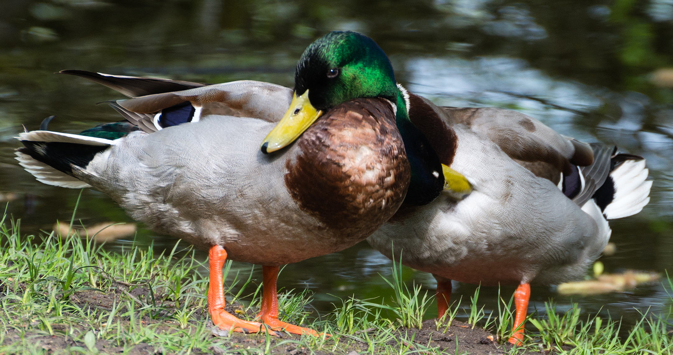 Male mallard ducks, Nature reserve Moenchbruch, Hesse, Germany. At the photo location, there was a group of four male Mallards loosely hanging around together and this male couple. While the ducks in the loose group kept some distance among each other and occasionally separated, the couple shown on this photo behaved like a heterosexual Mallard duck couple in a way that they always kept very close together and remained separated from the other group. When they moved, one duck of the couple was always very closely following the other one and when they didn't move they frequently established body contact as shown on the set of photos above and below.